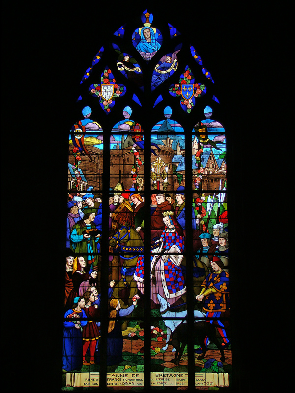 Saint Malo's Church, Dinan, Côtes-d’Armor, Bretagne, France. Chapel stained-glass window: Anne of Brittany, Queen of France founder of the Saint Malo's church, enters Dinan by the gate of Brest in 1505, (R. Desjardins, Angers, 1926)